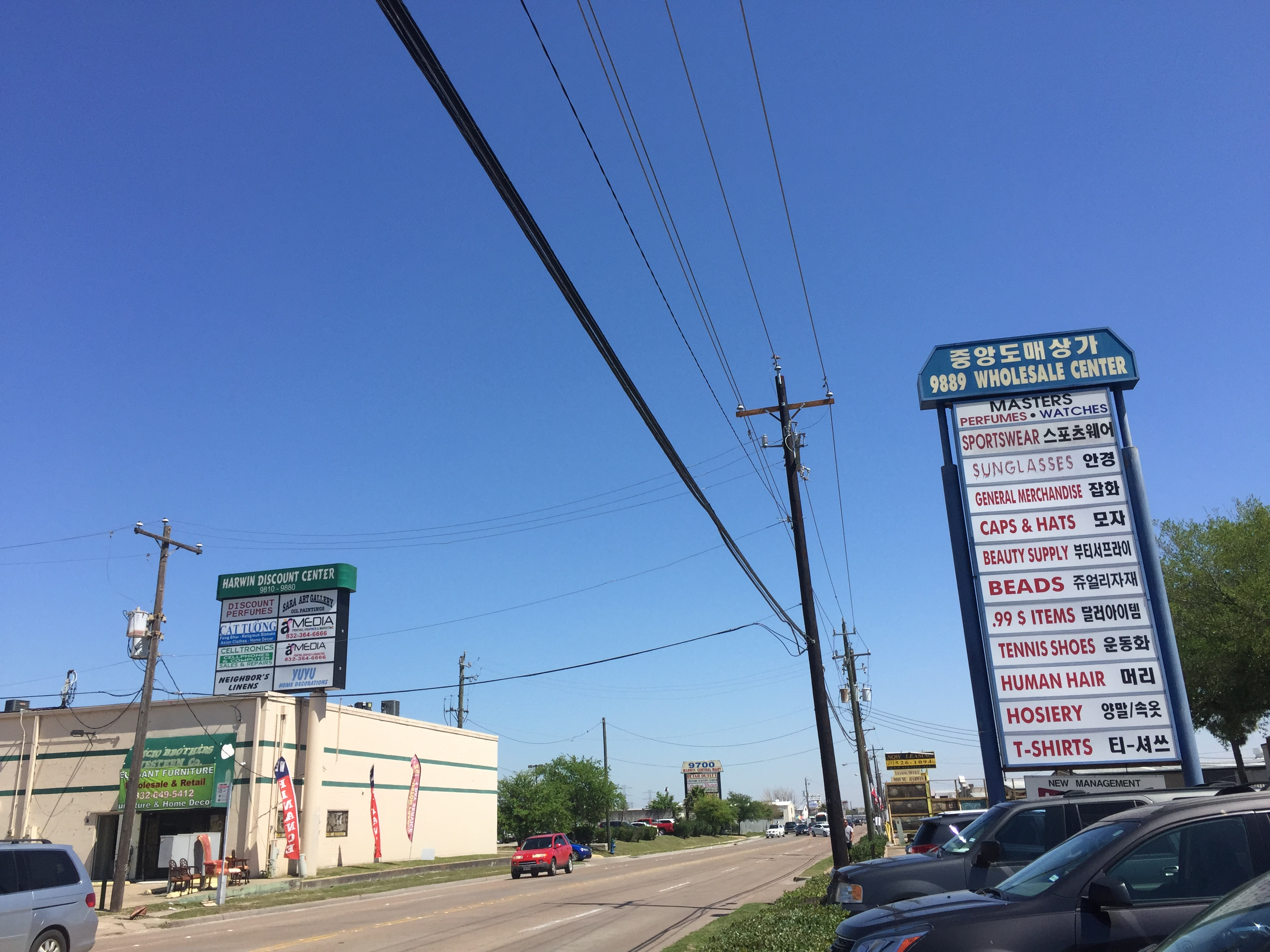 Harwin Drive area